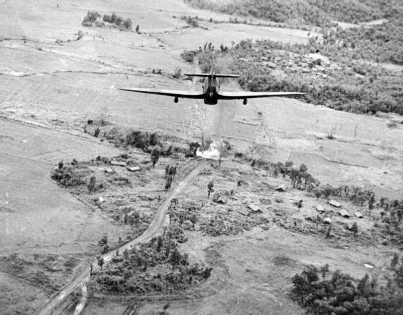 A Royal Air Force Hawker Hurricane IIC of No. 42 Squadron RAF based at Kangla, Manipur,India, piloted by Flying Officer "Chowringhee" Campbell, diving to attack a bridge near a small Burmese settlement on the Tiddim Road. The bombs of the previous aircraft can be seen exploding on the target.